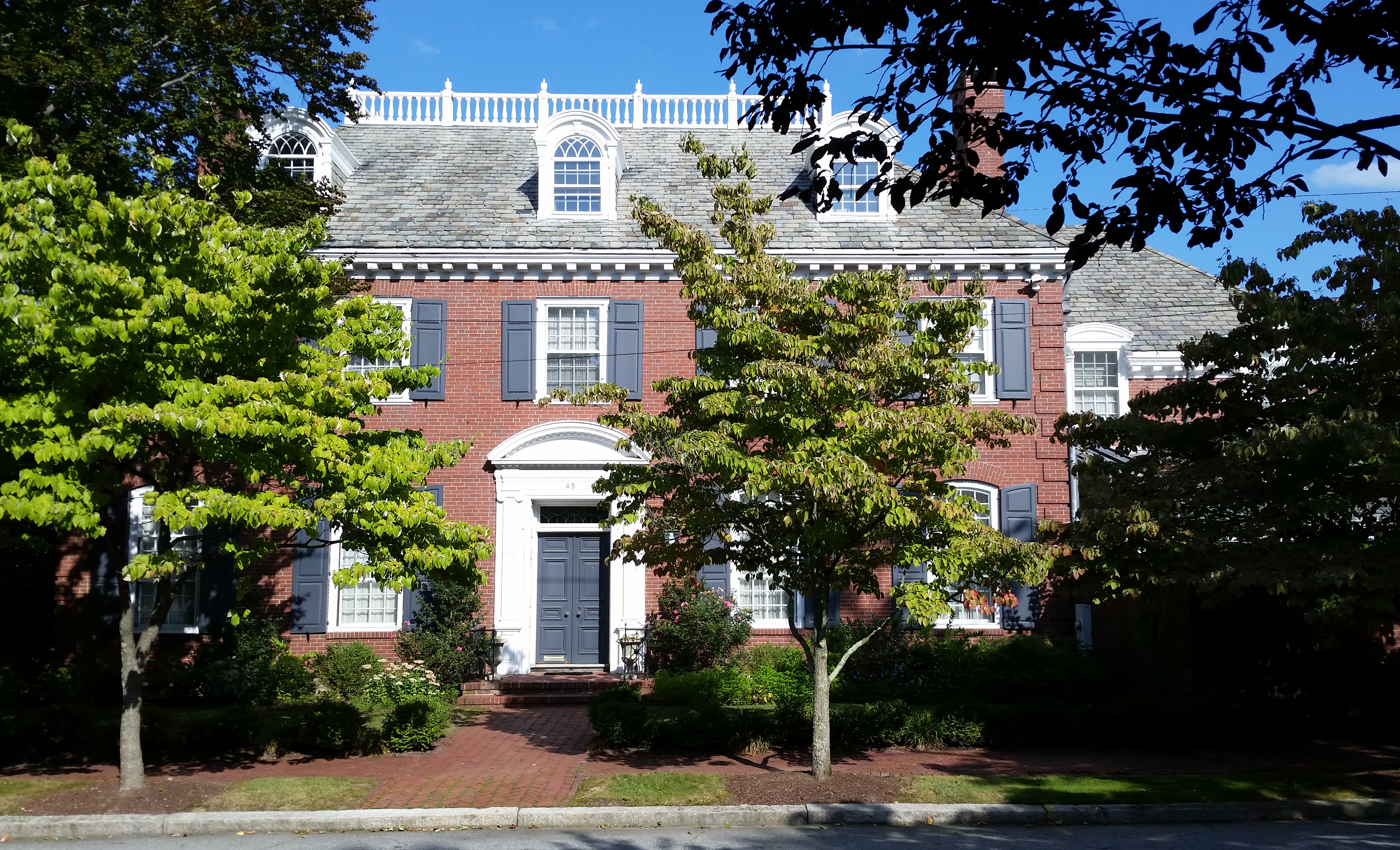 Edmund J. and Margaret A. Sullivan House; 1931-32; 45 Balton Road, Providence, RI; Edwin E. Cull, architect; A. H. Leeming & Sons, builder. A large, handsome, two-and-a-half-story brick dwelling in the Georgian Colonial style of the middle Atlantic region, with segmental-arch ground floor windows, paneled shutters, a modillion cornice, segmental-arch dormers, and a high hip roof with a flat central deck surrounded by a balustrade. Set on a corner lot, the house has two facades: one facing Balton Road and one facing a motor court of f Intervale Road. The Balton Road front contains a recessed central doorway trimmed with Ionic pilasters on pedestals, a cushion-frieze entablature, and a segmental-arch pediment. The more elaborate courtyard front has a pedimented doorway in a central projecting entrance pavilion flanked by large bow windows. Sullivan, grandson of rubber magnate Joseph Banigan, lived with his new bride and parents in the family home at 254 Wayland Avenue until this house was completed. Like others in his family, he worked in manufacturing.